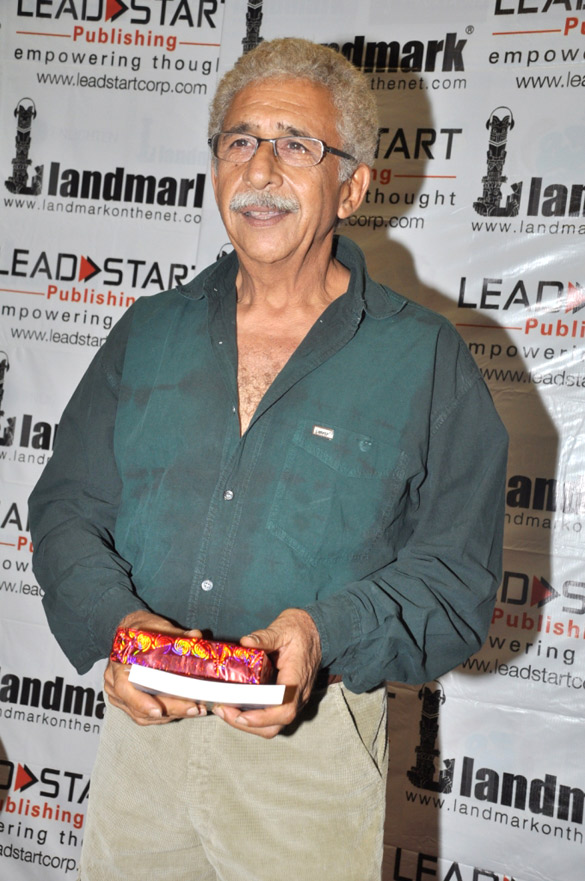 Naseeruddin Shah at the launch of Lead Start's book 'A Bolt of Lightning